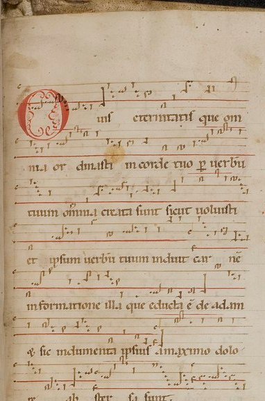 Folium 0466 right of the Riesencodex. Up-right superior cuarterly parcial view.